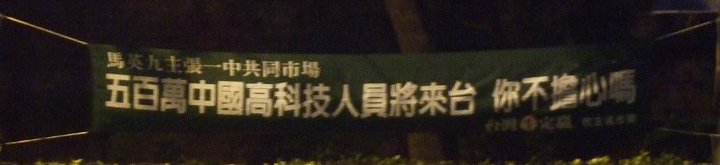 DPP presidential election flag. After Ma Ying-jeou declared, that if he is elected, he will combine the taiwanese and chinese market, the pro-independence DPP asked in chinese: 5.000.000 high qualified workers from China will come to Taiwan. Aren't you scared? 中文（台灣）: 2008年中華民國總統選舉，民主進步黨的競選主軸之一是猛打「一中共同市場」。1993年4月26日，台灣勞工陣線秘書長簡錫堦在《自立早報》的【焦點對談】中承認：民主進步黨在勞工政策方面，「只站在台獨立場來反對引進中國勞工（以免台獨主張受大陸人海戰術影響），卻不反對外勞，因為有中小企業主的壓力」。